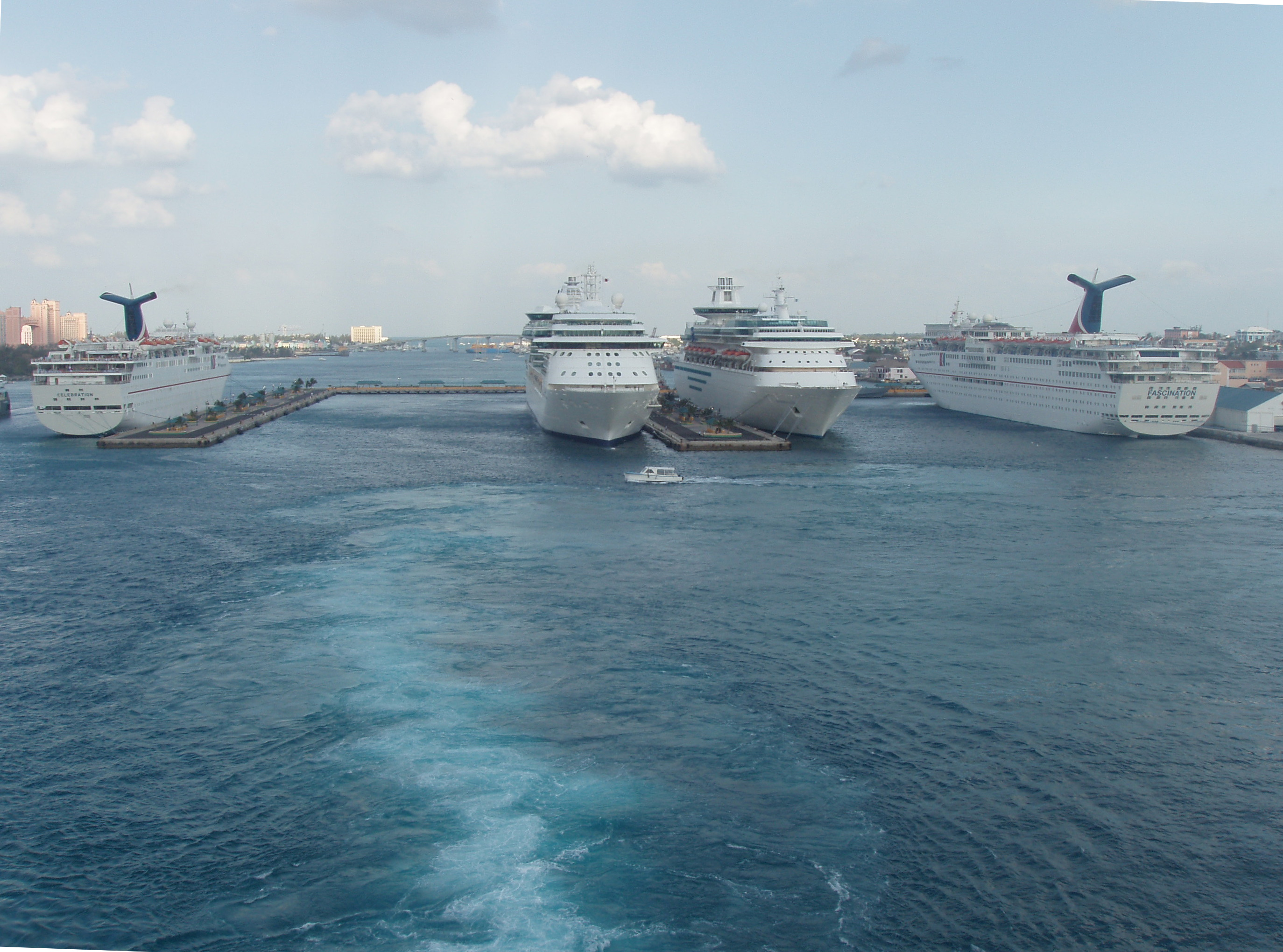 Four cruise ships docked in Nassau, Bahamas.